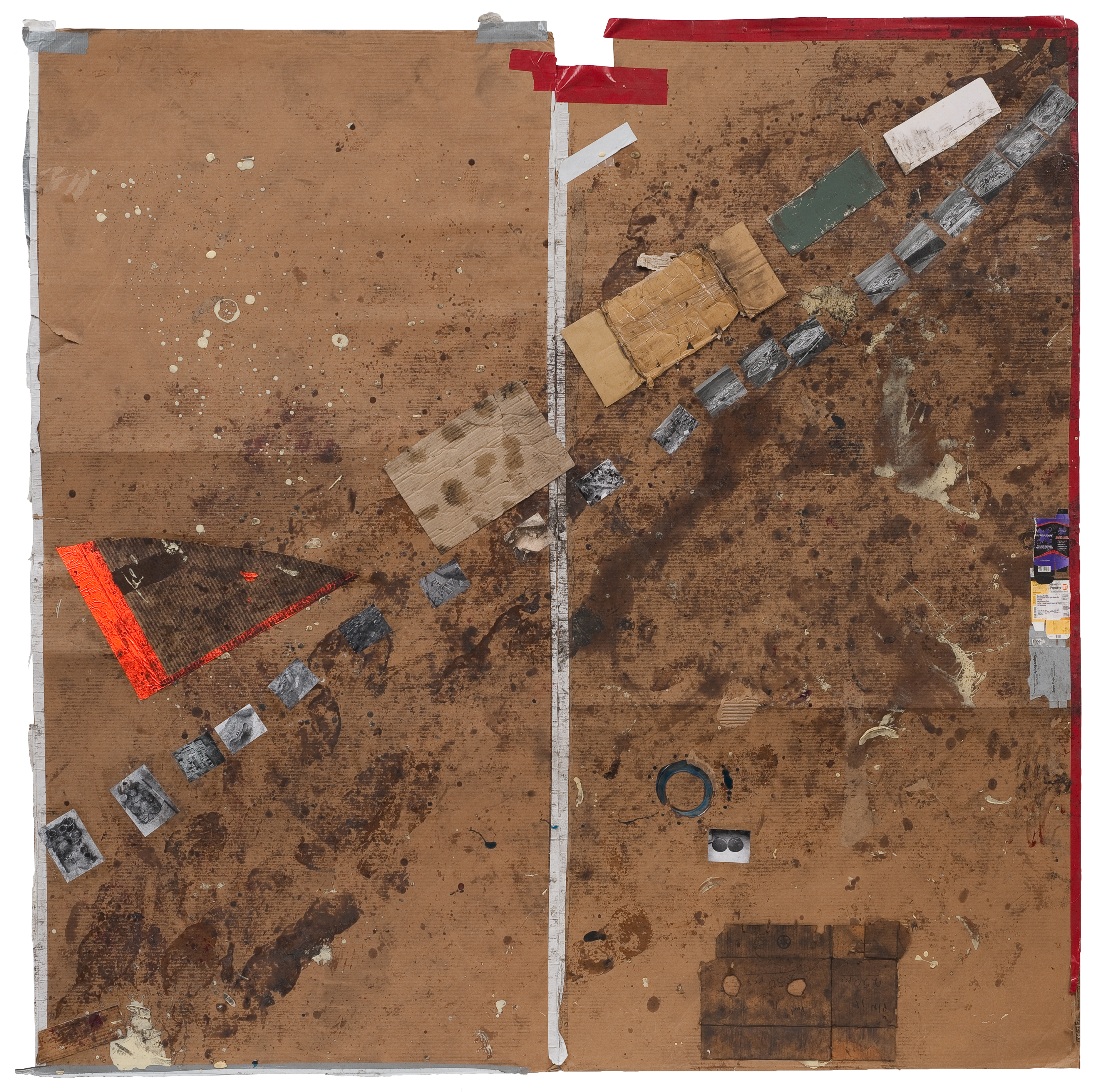 A collage work titled, EXHM3915, by Sterling Ruby.